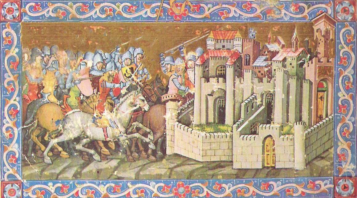 Miniature of the Huns laying siege to a Aquileia